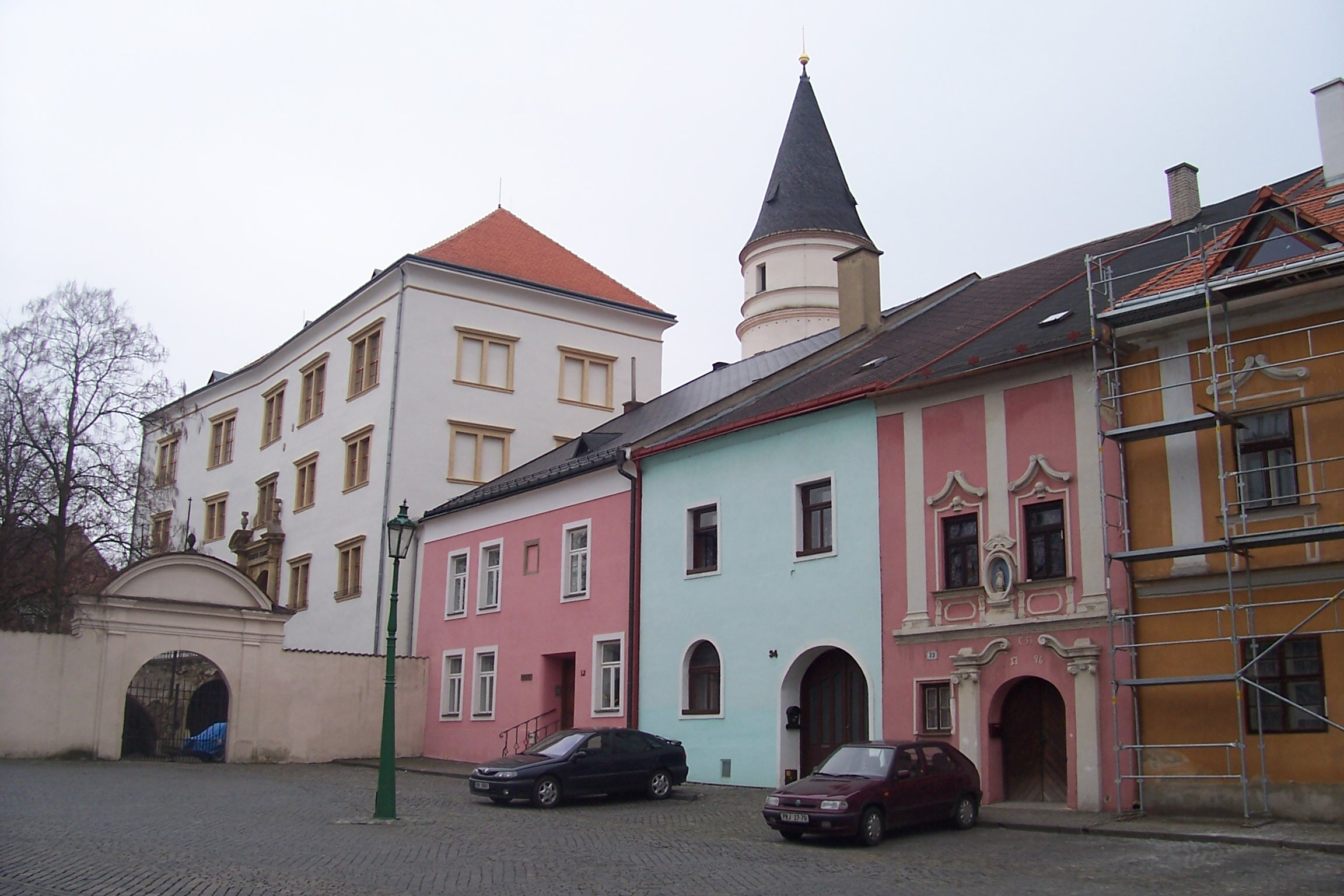 Přerov , Czech Republic. Horní náměstí and the castle.